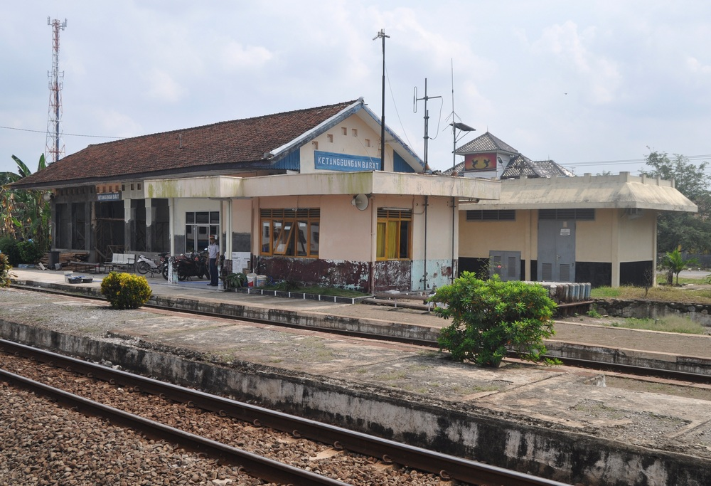 Ketanggungan Barat train station in Brebes, Central Java, in renovation